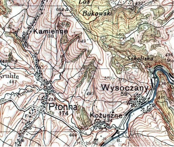 village Płonna and Kamienne, district Sanok, on old map from 1930